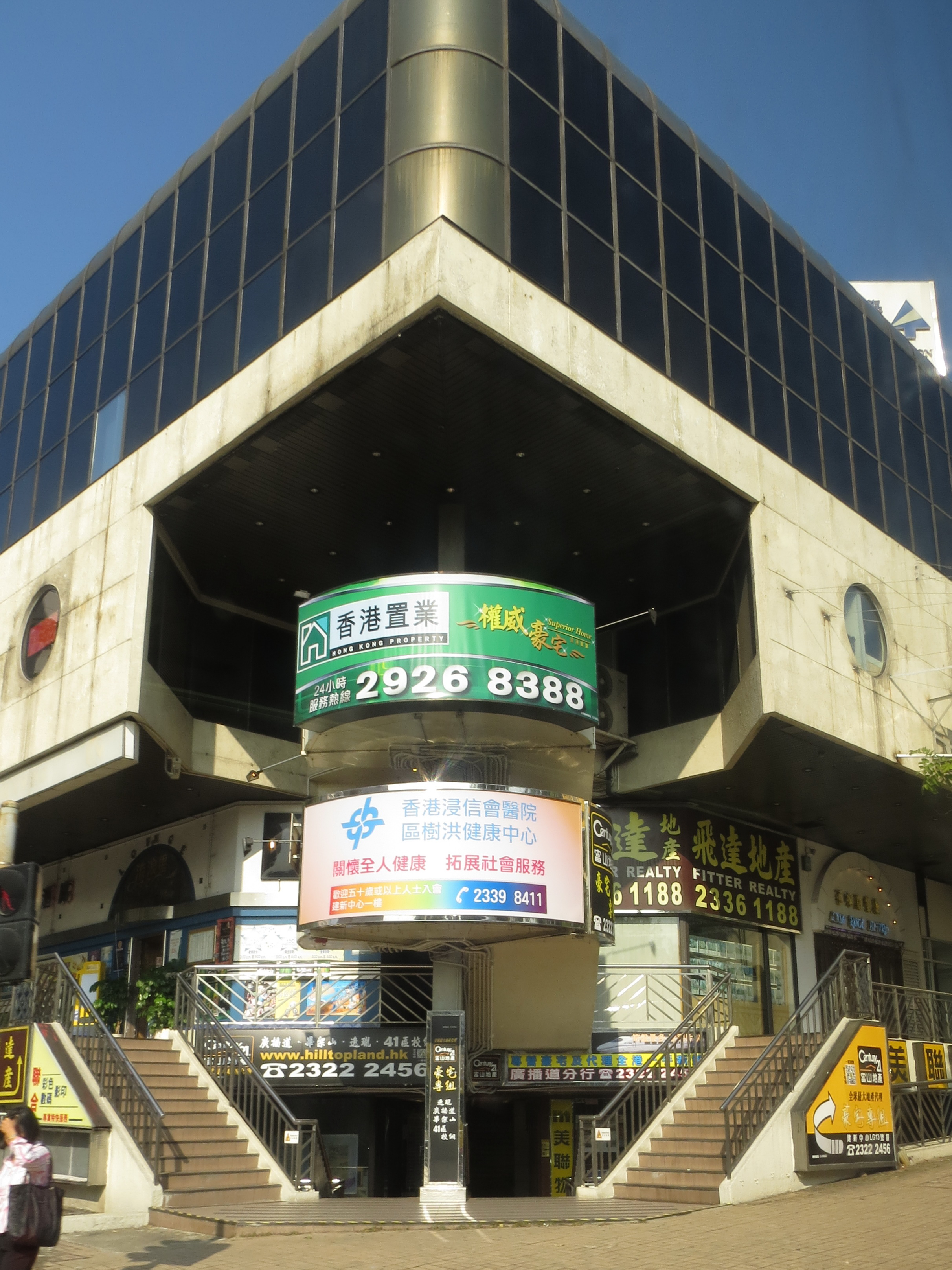 Franki Centre, Kowloon Tong, Hong Kong.